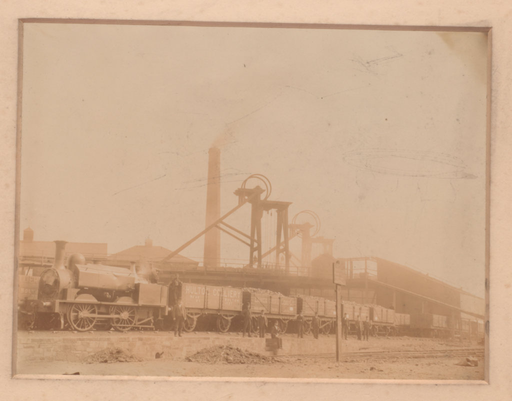 Hulton Park Colliery